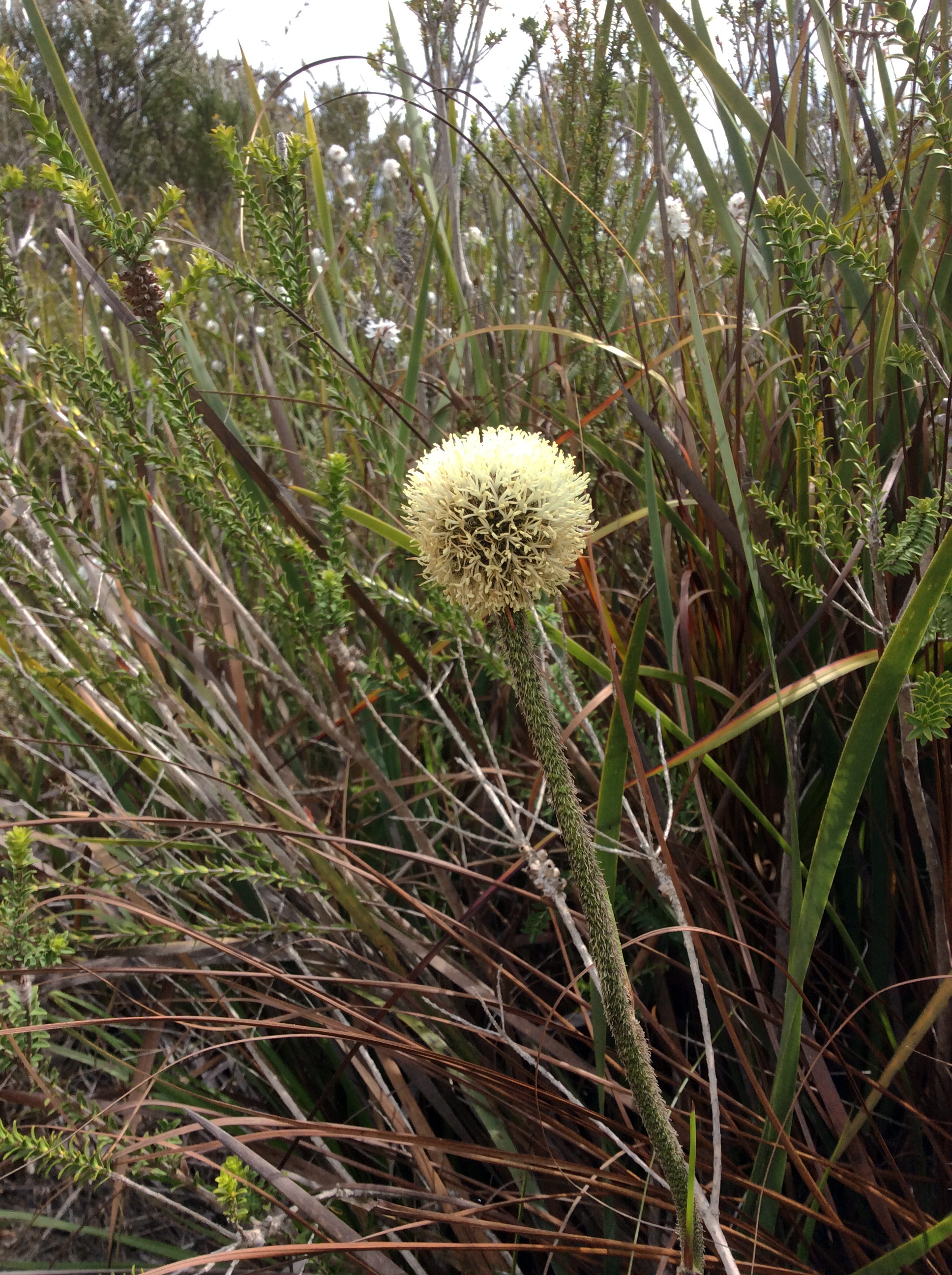 Flowering drumstick (Dasypogon bromeliifolius) near Walpole, Western Australia